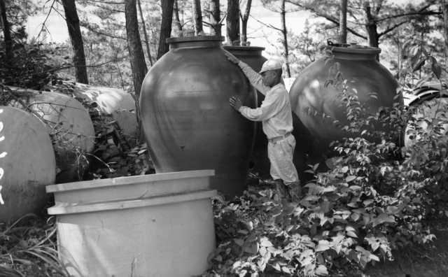 OKUNOSHIMA, JAPAN. 1946-08-03. CERAMIC CONTAINERS AT WHAT WAS FORMERLY THE TADANOUMI BRANCH OF THE TOKYO 2ND ARMY ARSENAL. OF GERMAN PATTERN BUT OF JAPANESE MANUFACTURE THEY WERE USED FOR THE PROCESSING OF MUSTARD GAS AND LEWISITE. OPERATION "LEWISITE" UNDER THE DIRECTION OF THE DIRECTOR OF ENGINEERING EQUIPMENT SECTION OF BCOF IS INVOLVED IN THE DESTRUCTION OF APPROXIMATELY 22,000 TONS OF POISON GAS.